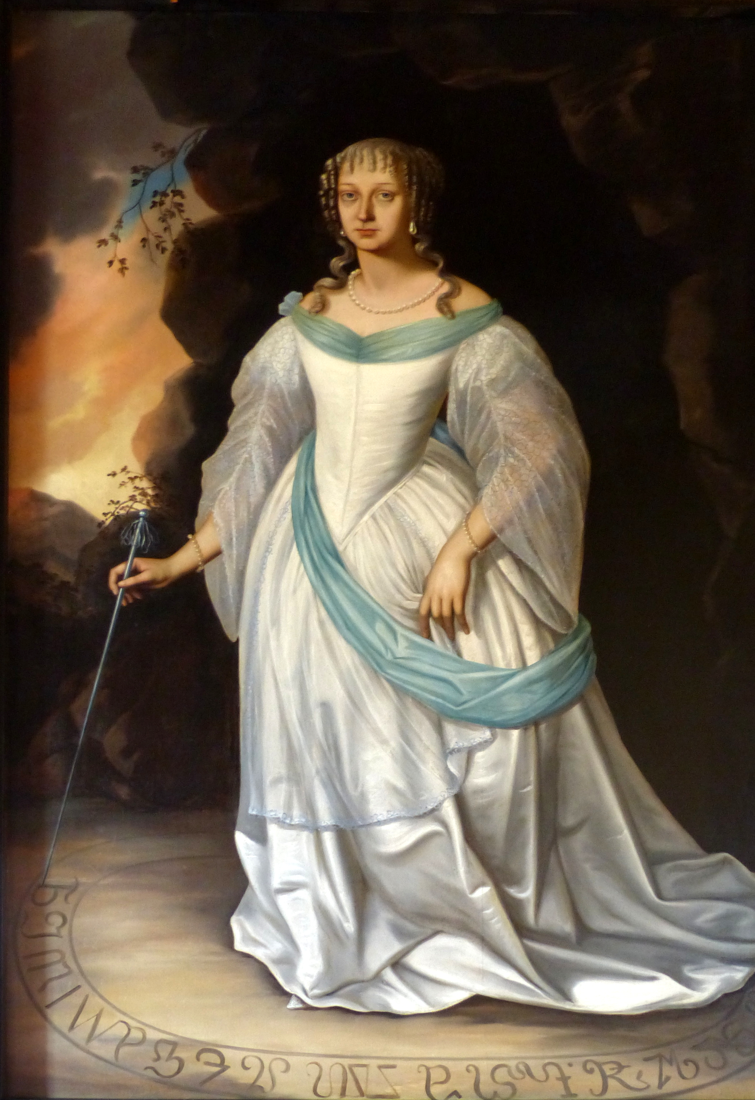 Rožmberk ( Czech Republic ). Lower castle - Rosenberg hall ( 1840s ): Portrait of Perchta of Rosenberg, the "White Lady" ( castle ghost ) of Rožmberk castle.